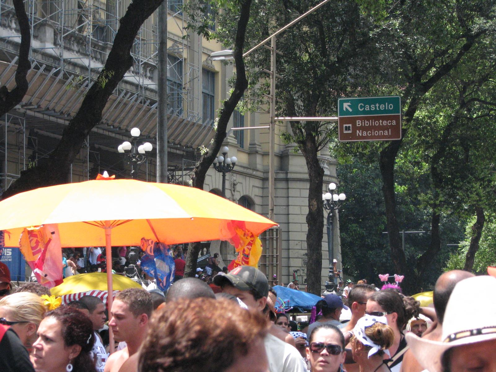 Cordão do Bola Preta is a traditional carnival bloco in the city of Rio de Janeiro. The bloco parades nearby the National Library of Brazil.